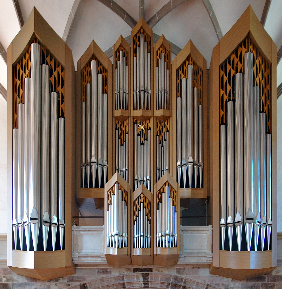 This image shows the organ of the church "St. Wolfgangskirche" in Schneeberg (Saxony, Germany).